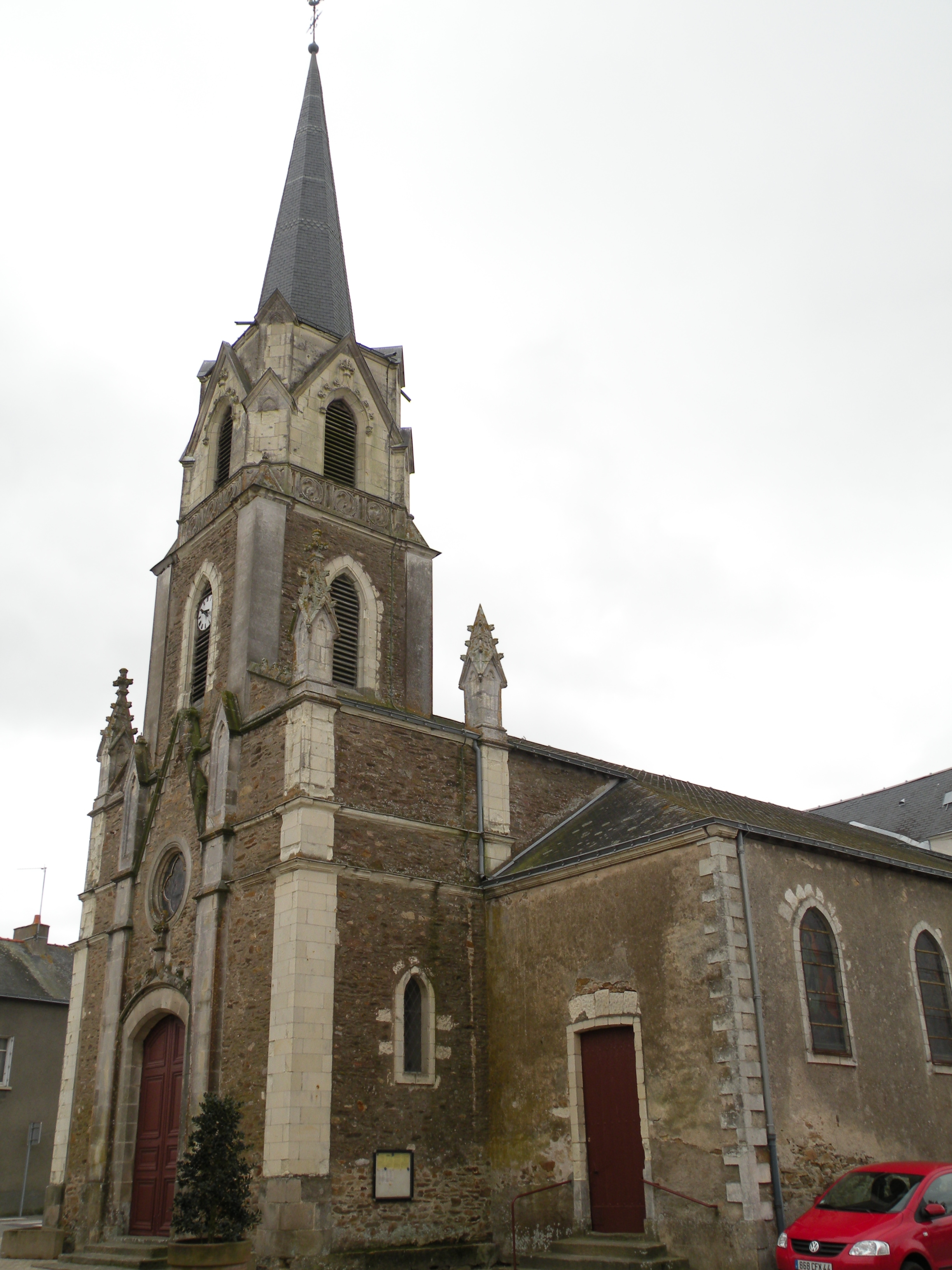 Saint-Louis church of Casson